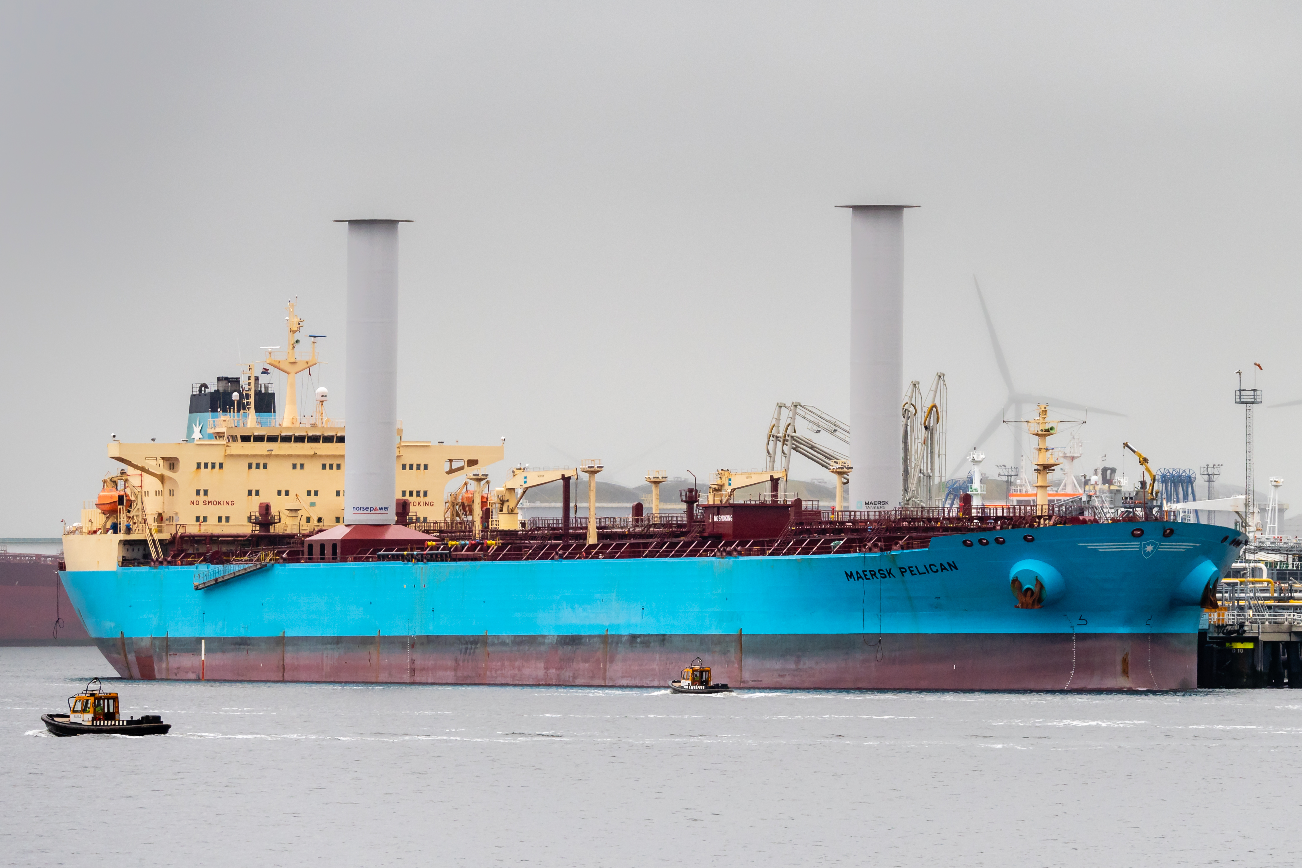 Norsepower Rotor Sails onboard Maersk Pelican are the largest Flettner rotors in the world